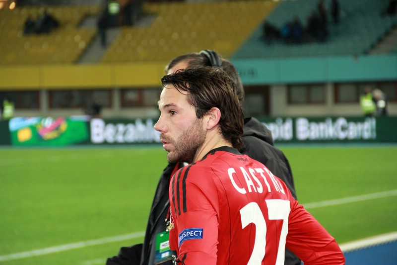 Gonzalo Castro playing for Bayer Leverkusen